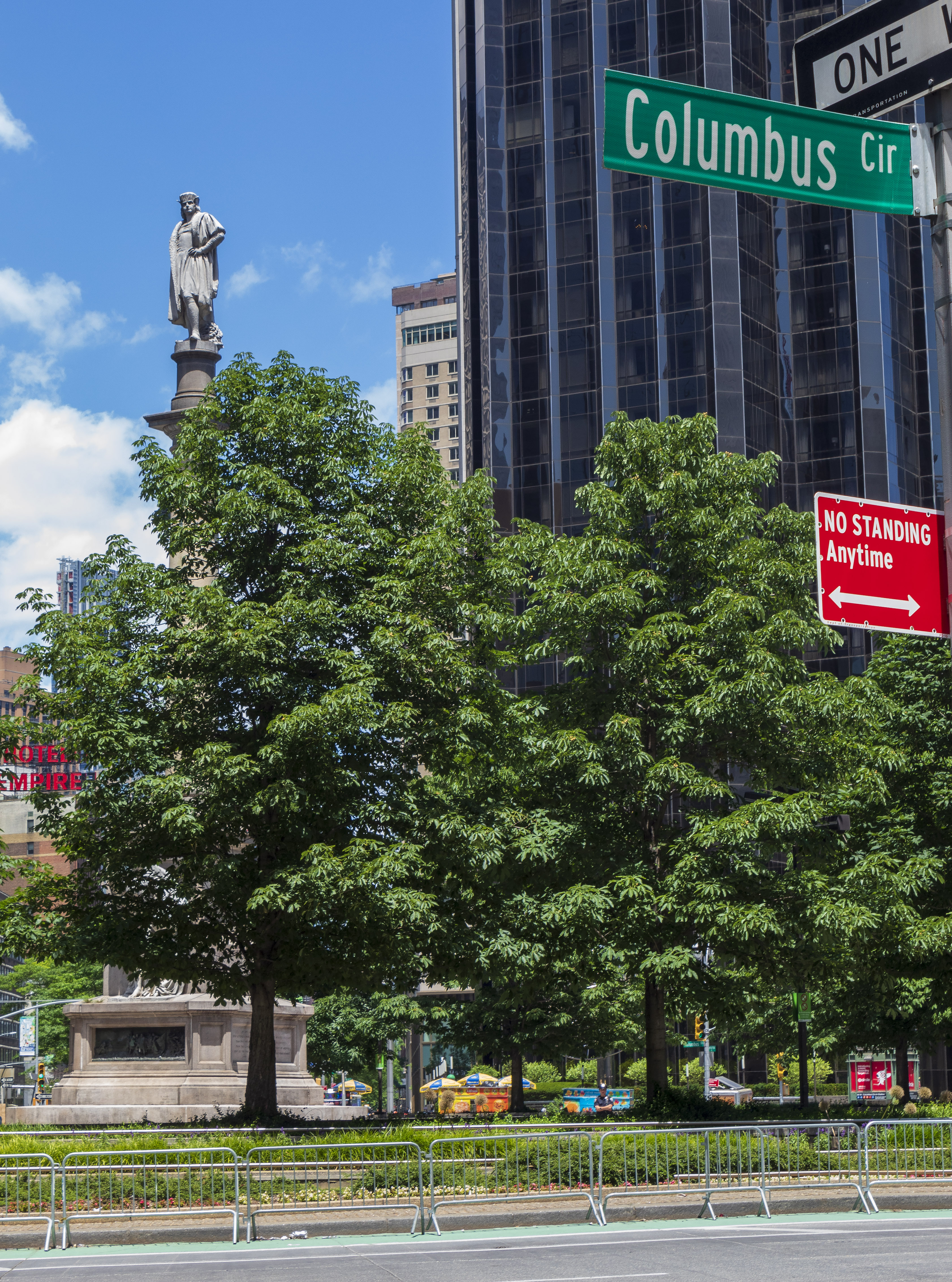 The Columbus Monument is blocked off from pedestrian traffic by NYPD crowd control barriers